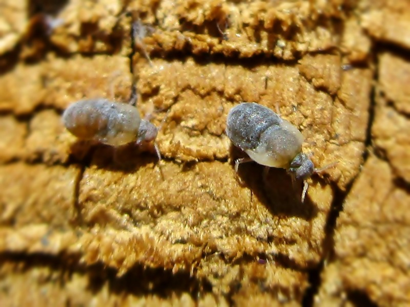 Tetraneura ulmi (Aphididae) - (gall), Elst (Gld) - De Park, the Netherlands